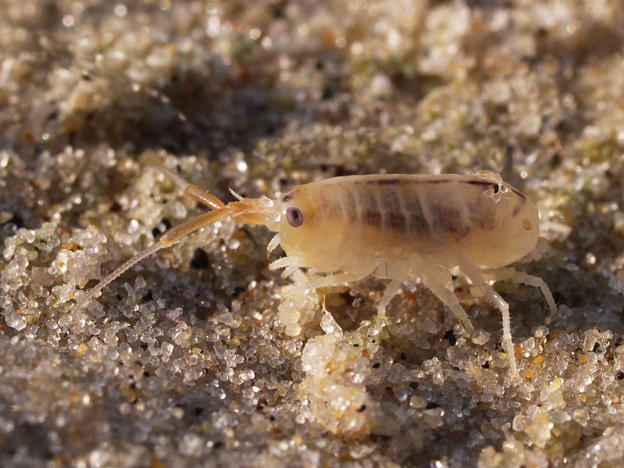 Sand hopper at the beach of the Baltic Sea at Bornholm island